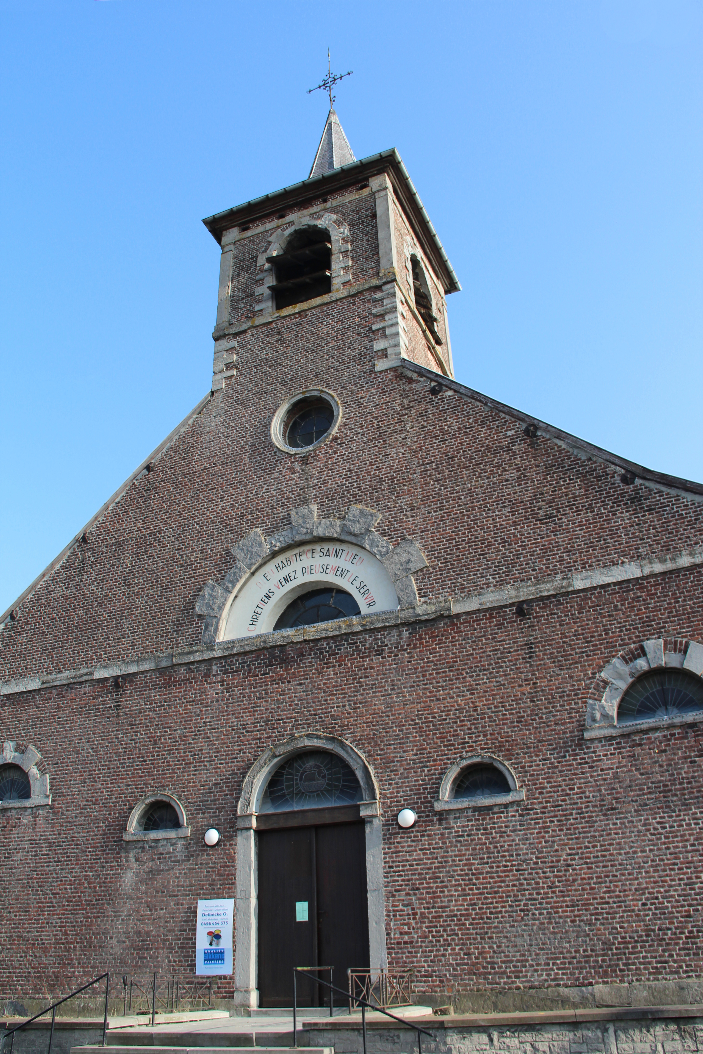 Gaurain (Belgium), the church of Saint Vedast (1771).